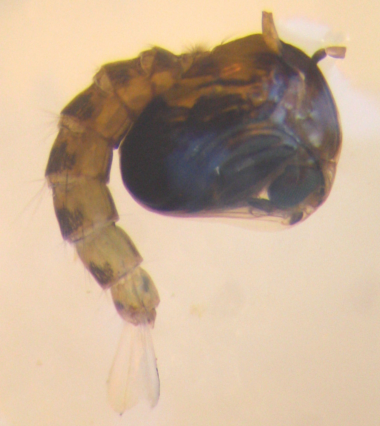 Pupa of a mosquito, Anopheles or Culex sp. Found in a pond in Munich, Germany, in June 2007. The top part is about 2 mm wide. At the top right, the eye and mouth parts of the adult can be recognized.